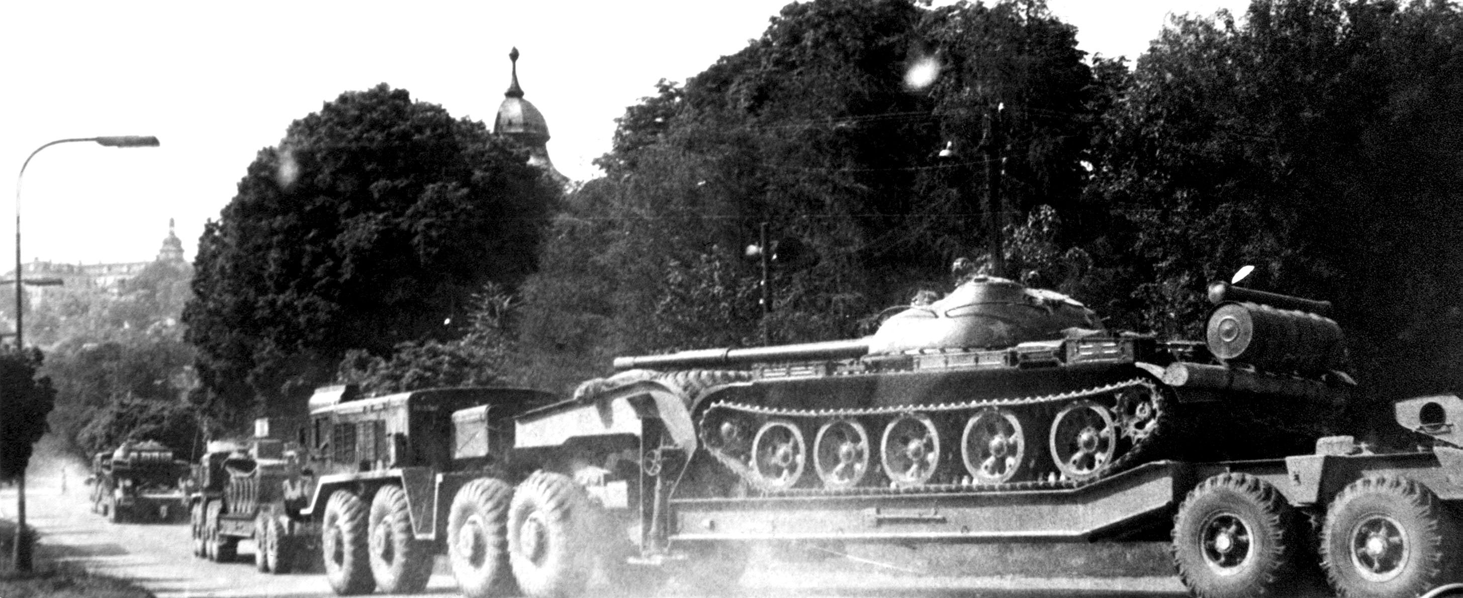 MAZ-537 tractor-trailers loaded with T-62 tanks. Courtesy of Soviet Military Power, 1984. Photo No. 90, page 86, bottom.